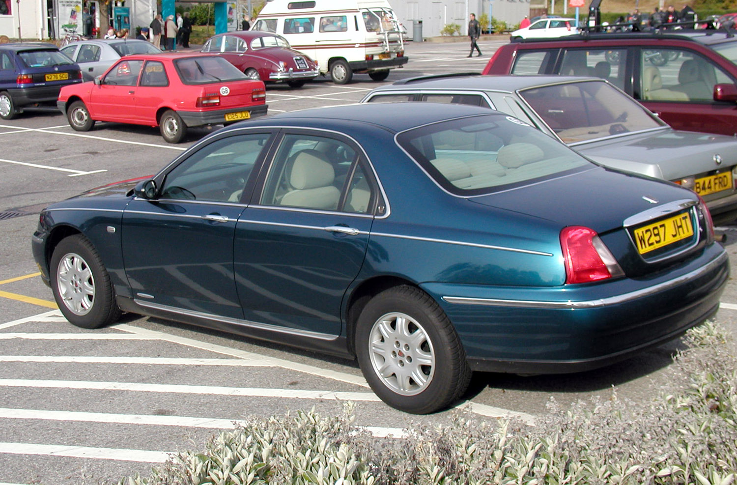 2000 Rover 75 at Aust Services, Aust, Bristol, England. Taken by Adrian Pingstone in October 2003 and released to the public domain.